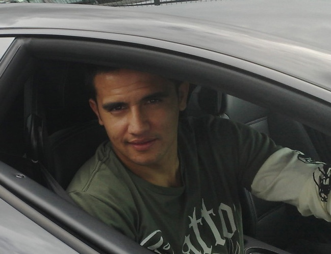 Tim Cahill in his Bugatti Veyron outside Finch Farm in August 2008.